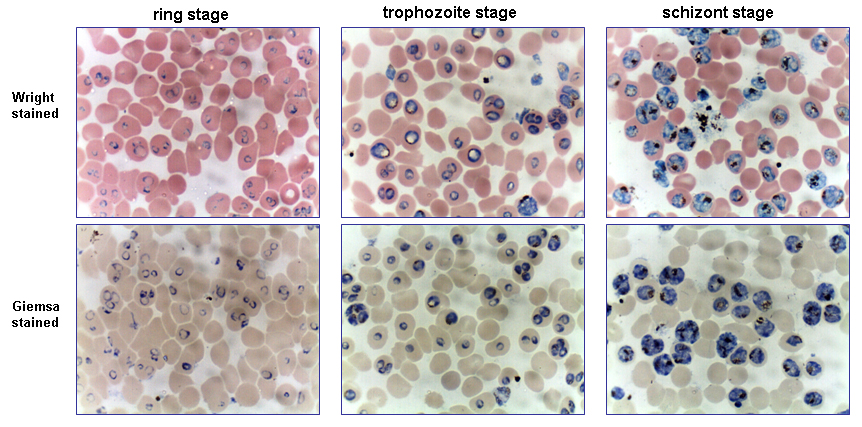 Synchronised cultures of the blood stages of Plasmodium falciparum.